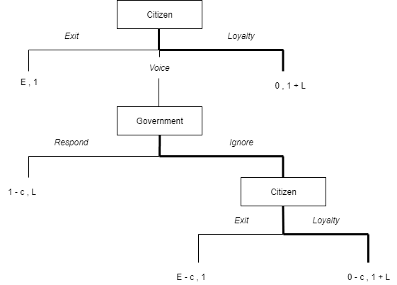 made with draw.io